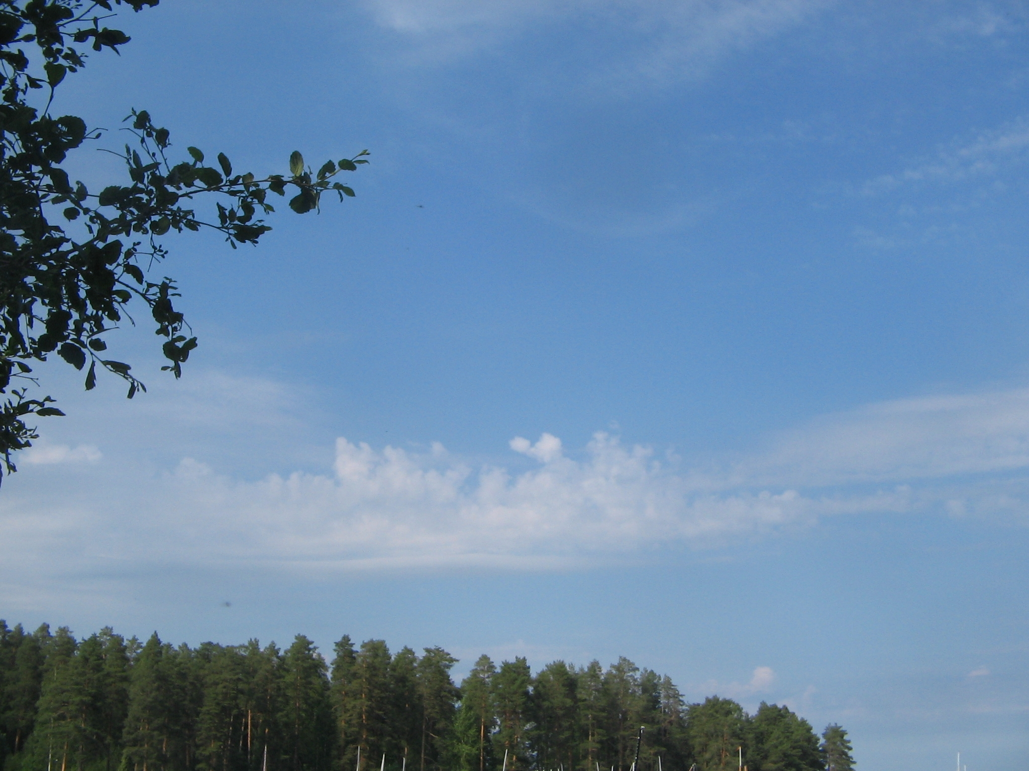 Weather/Cloud types/ Altocumulus castellanus or Statocumulus castellanus cloud, very strong air uplift. lower side down.